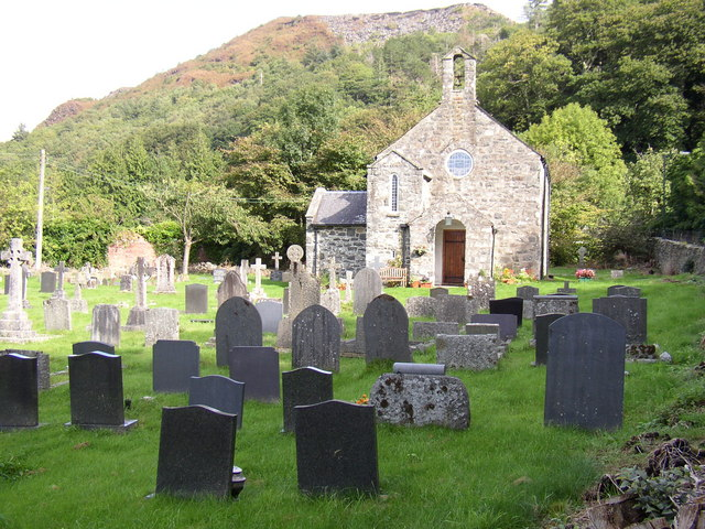 St Catherine's Church, Arthog. A pretty church, blighted by motorists speeding on the adjacent road.